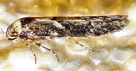 Blastobasis adustella, adult from Lincolnshire